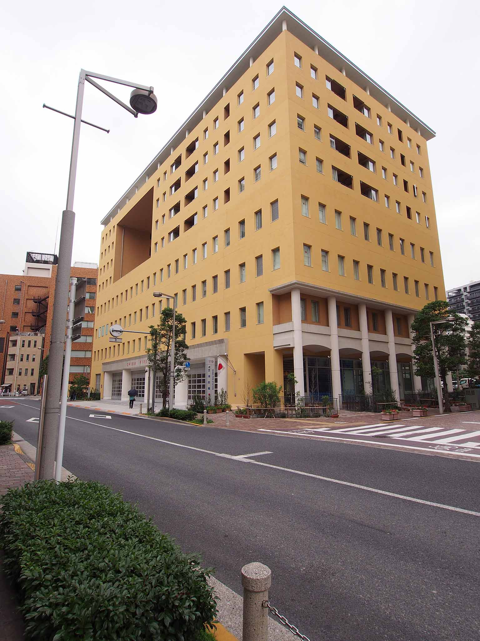 Tokyo Fire Department Shiba Fire Department, moved from Shinbashi to Higashi-shinbashi on October 2015.